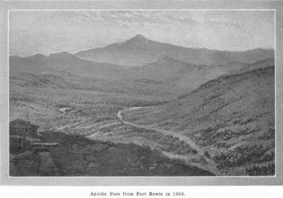 Apache Pass from Fort Bowie in 1868